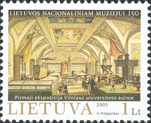 Stamps of Lithuania, 2005